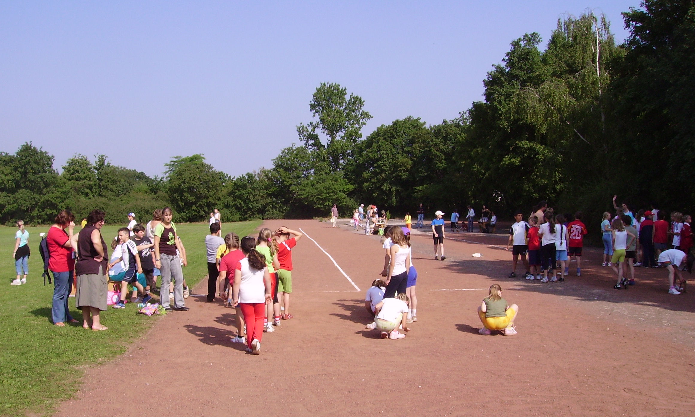 Bundesjugendspiele